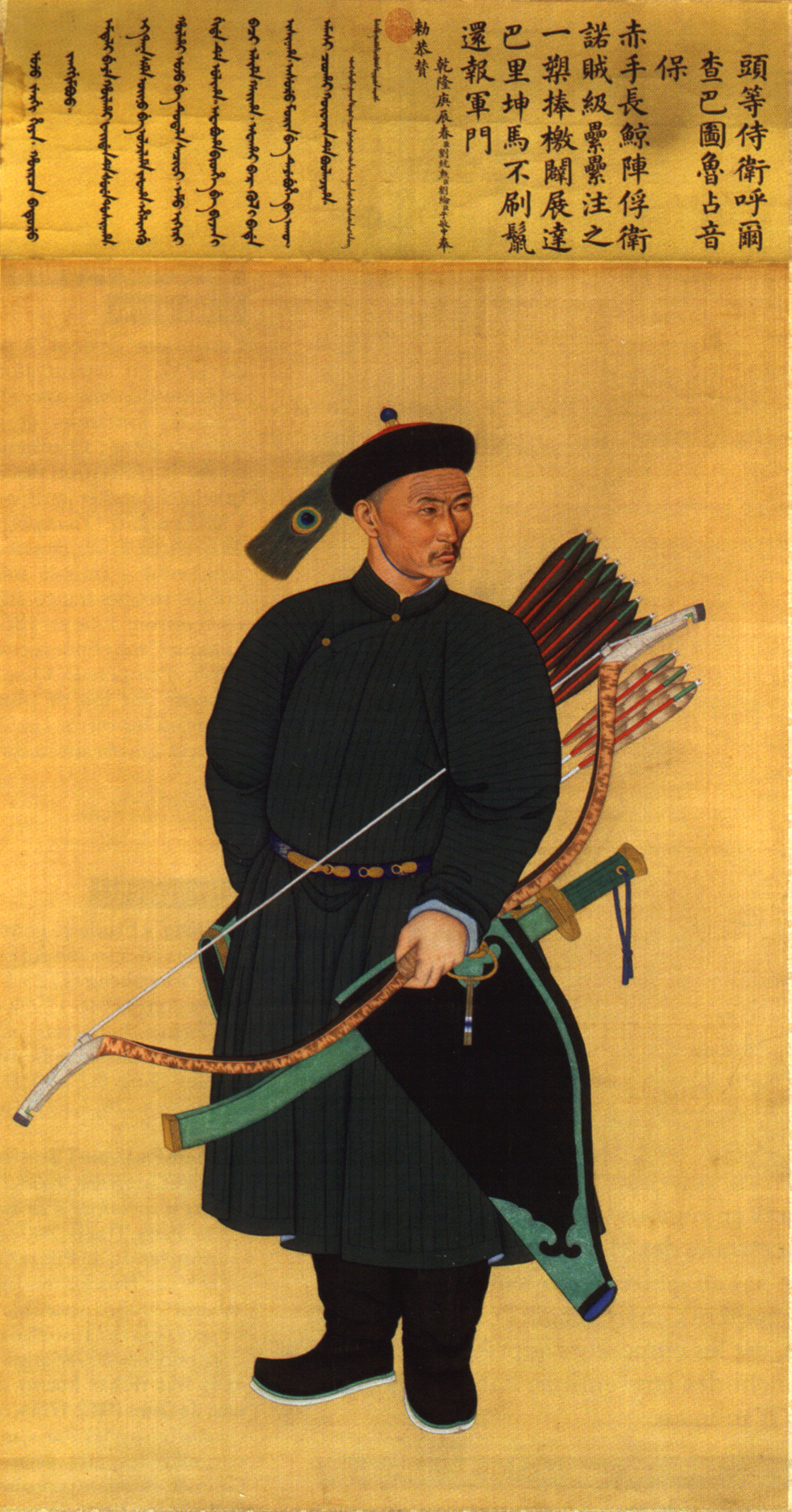 Janggimboo / chin. Zhan Yinbao (占音保 zhàn yīnbǎo), was an officer of the Qing Army. Ink and colours on silk, 188,6 x 95,1cm. Metropolitan Museum of Art, NY.